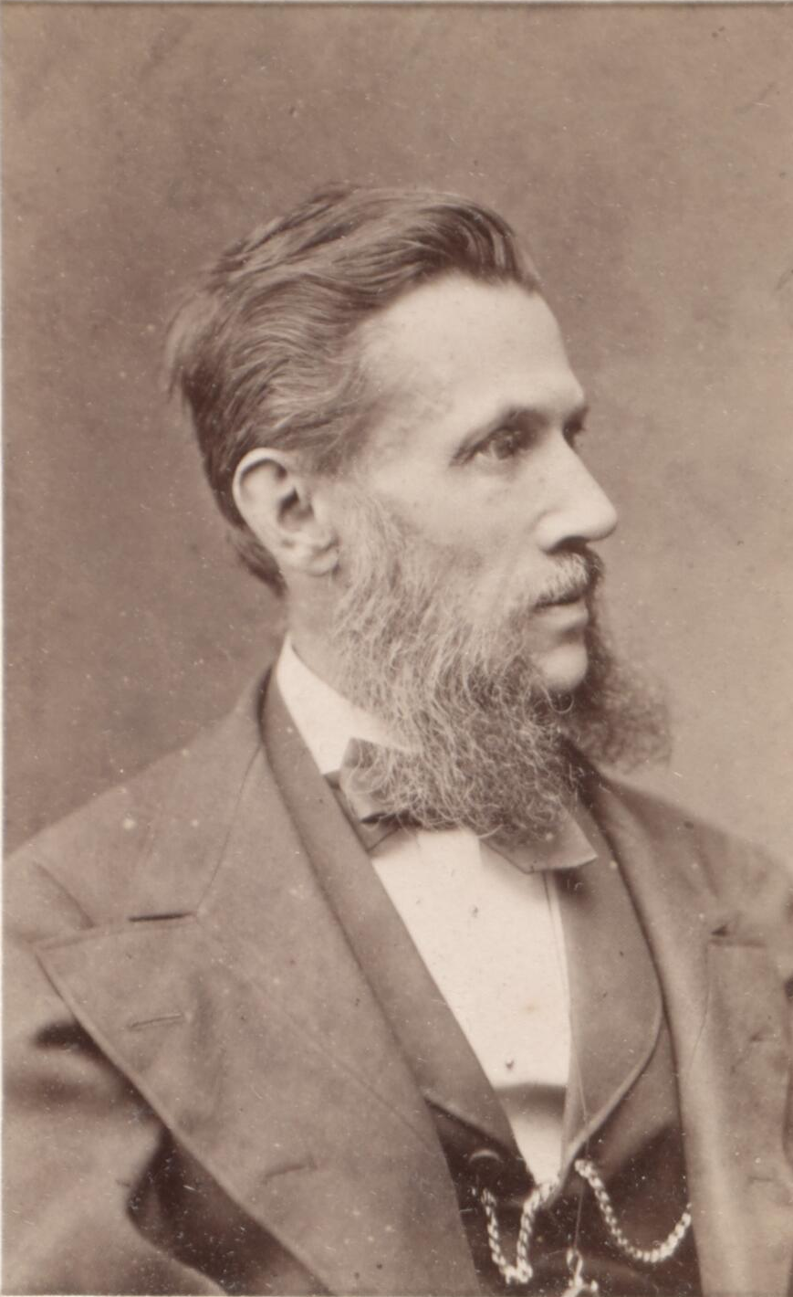 Plate 05 Photograph album of German and Austrian scientists. Wien II (Vienna II): Brunner von Wattenwyl.